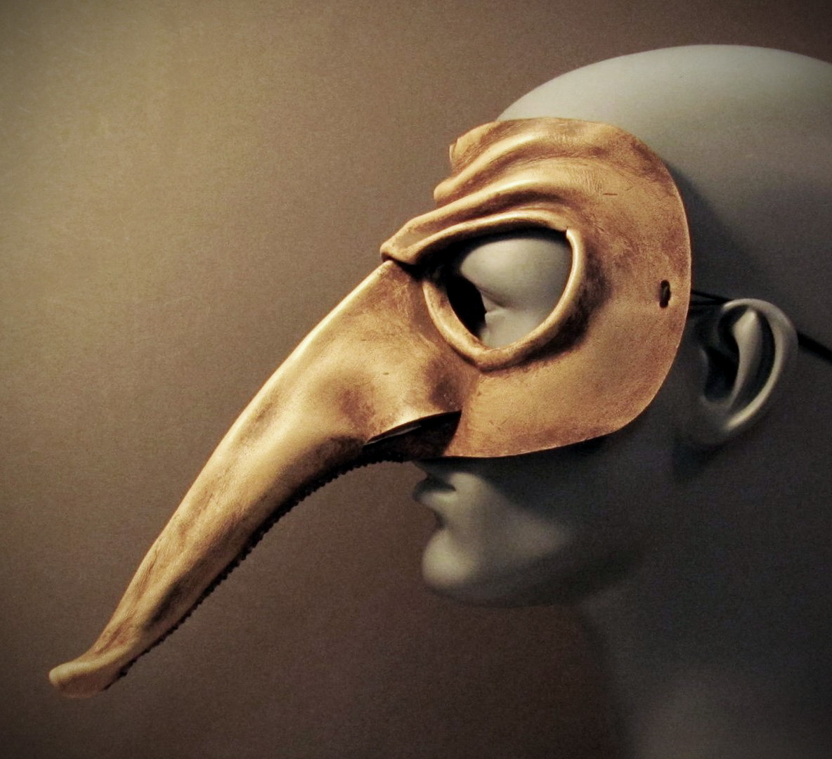 A leather version of a Zanni mask from the Italian Commedia dell'Arte, profile view